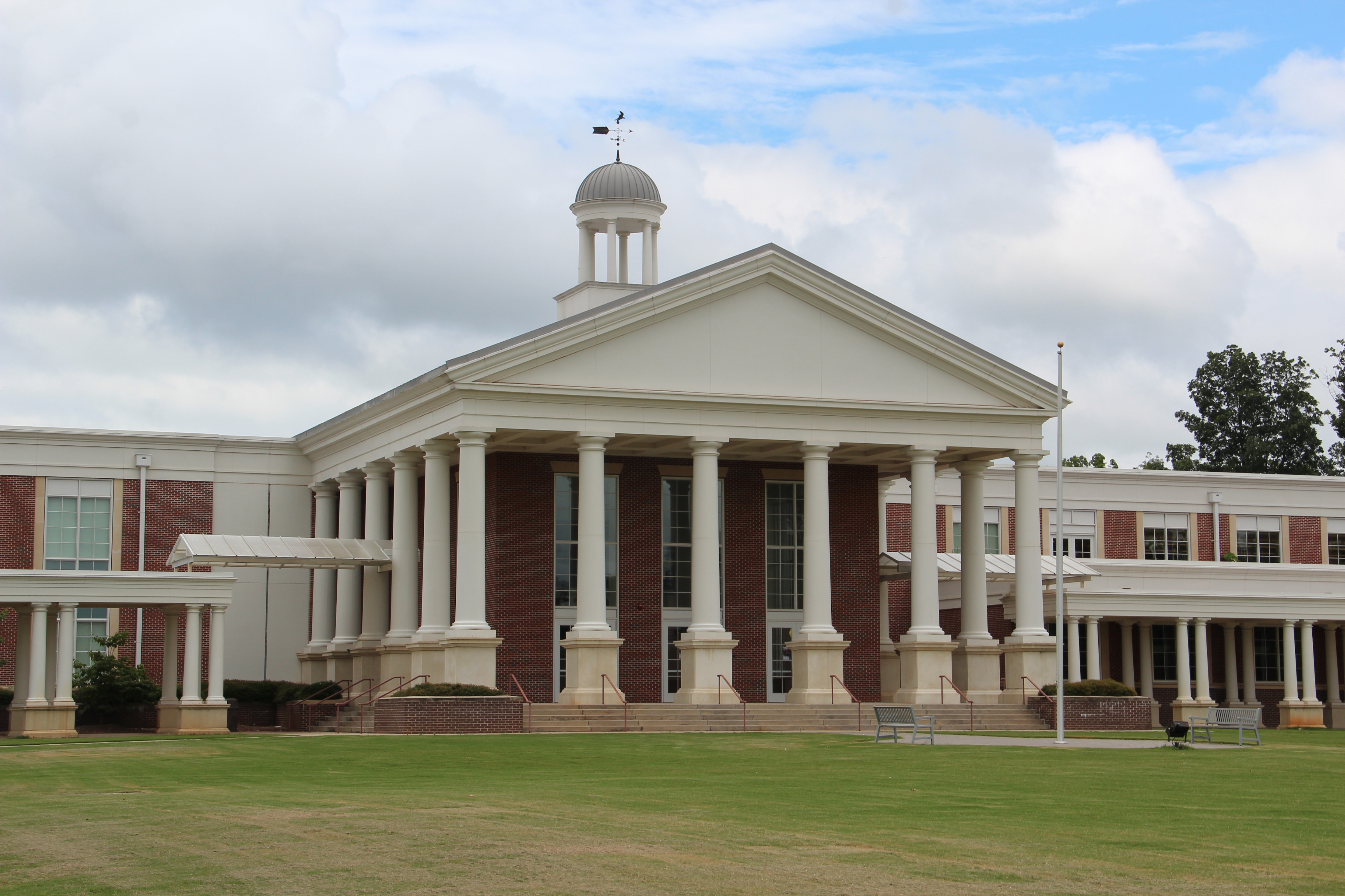 Milton High School, Milton, Georgia